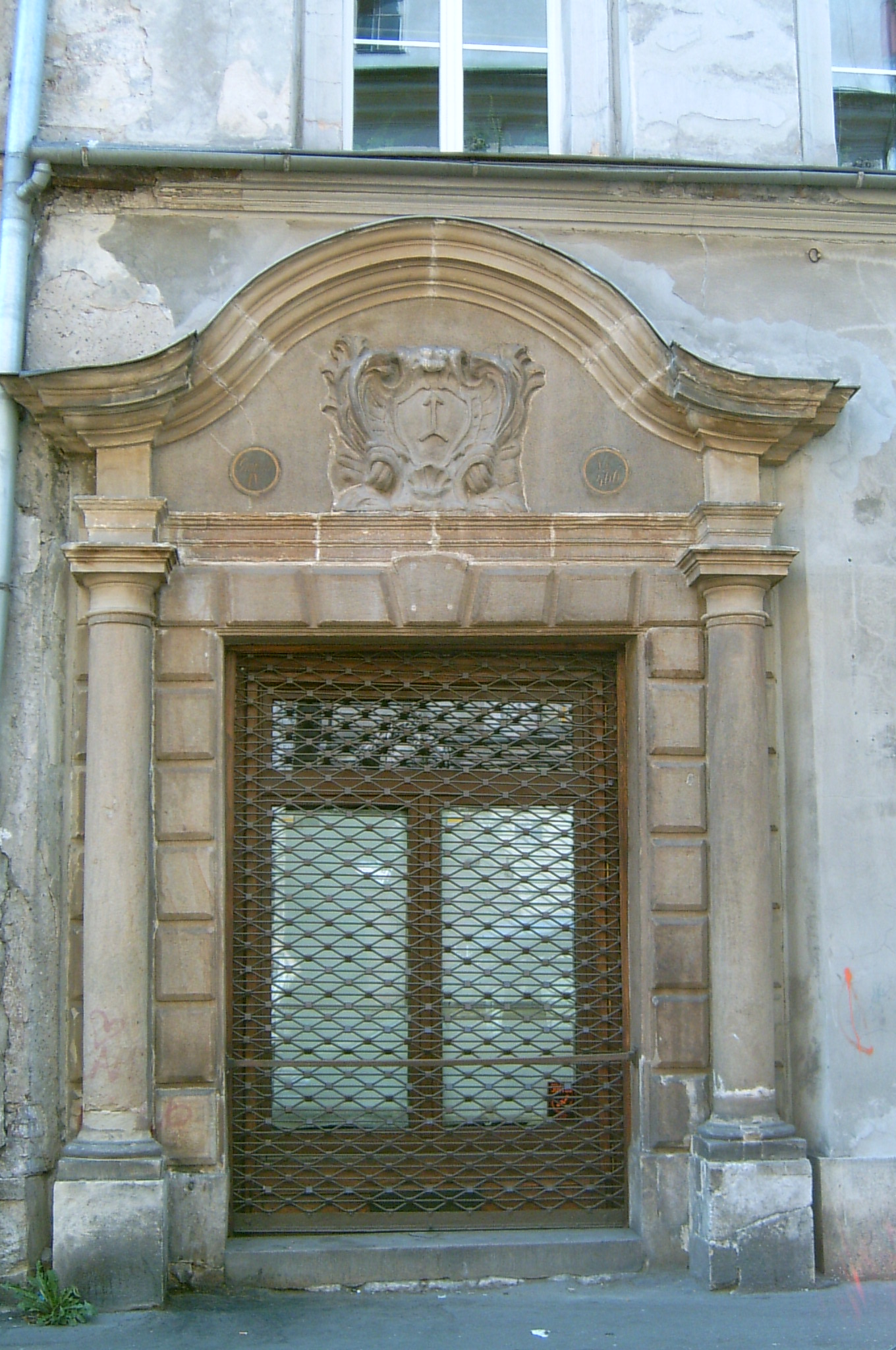 18 Świętego Jana Street in Kraków, Poland